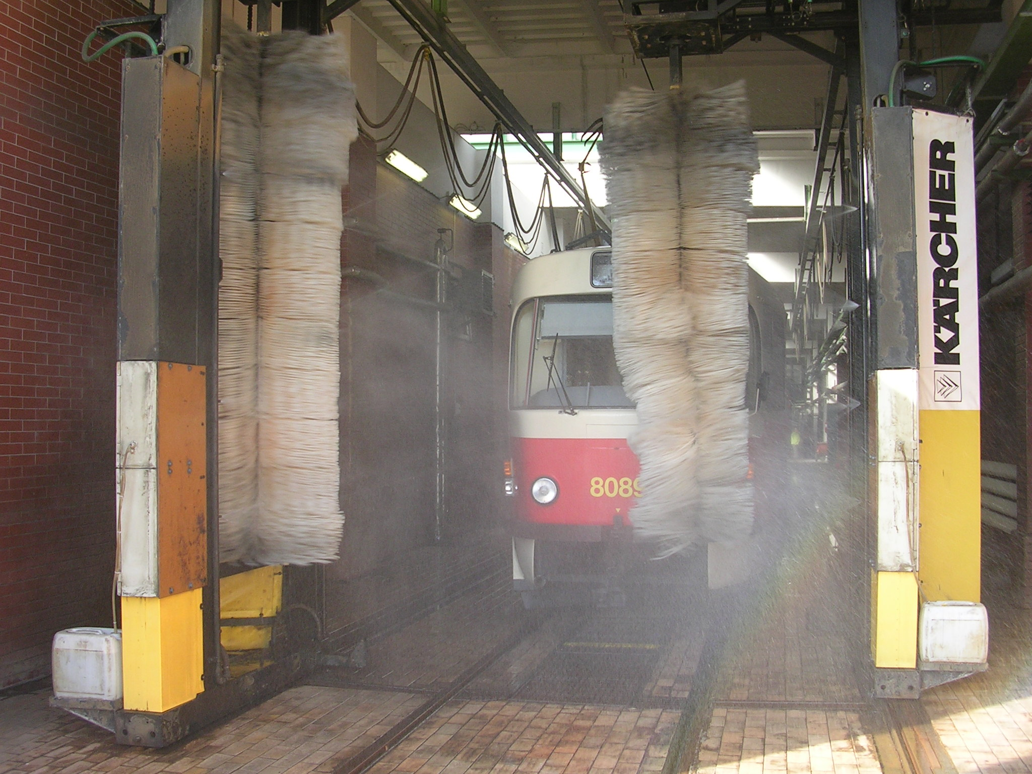 Tram wash-stand. Visiting day in the tram depot Prague-Hloubětín, Czech Republic.